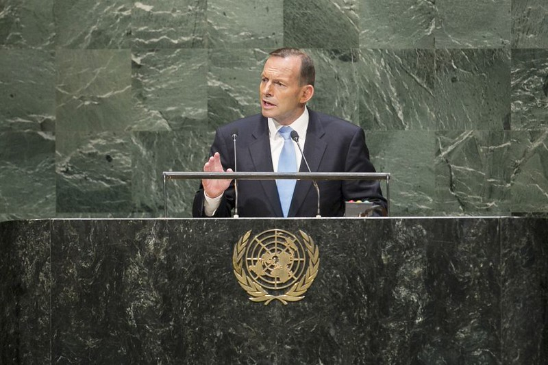 Australian Prime Minister Tony Abbott addressing the UNGA in 2014.